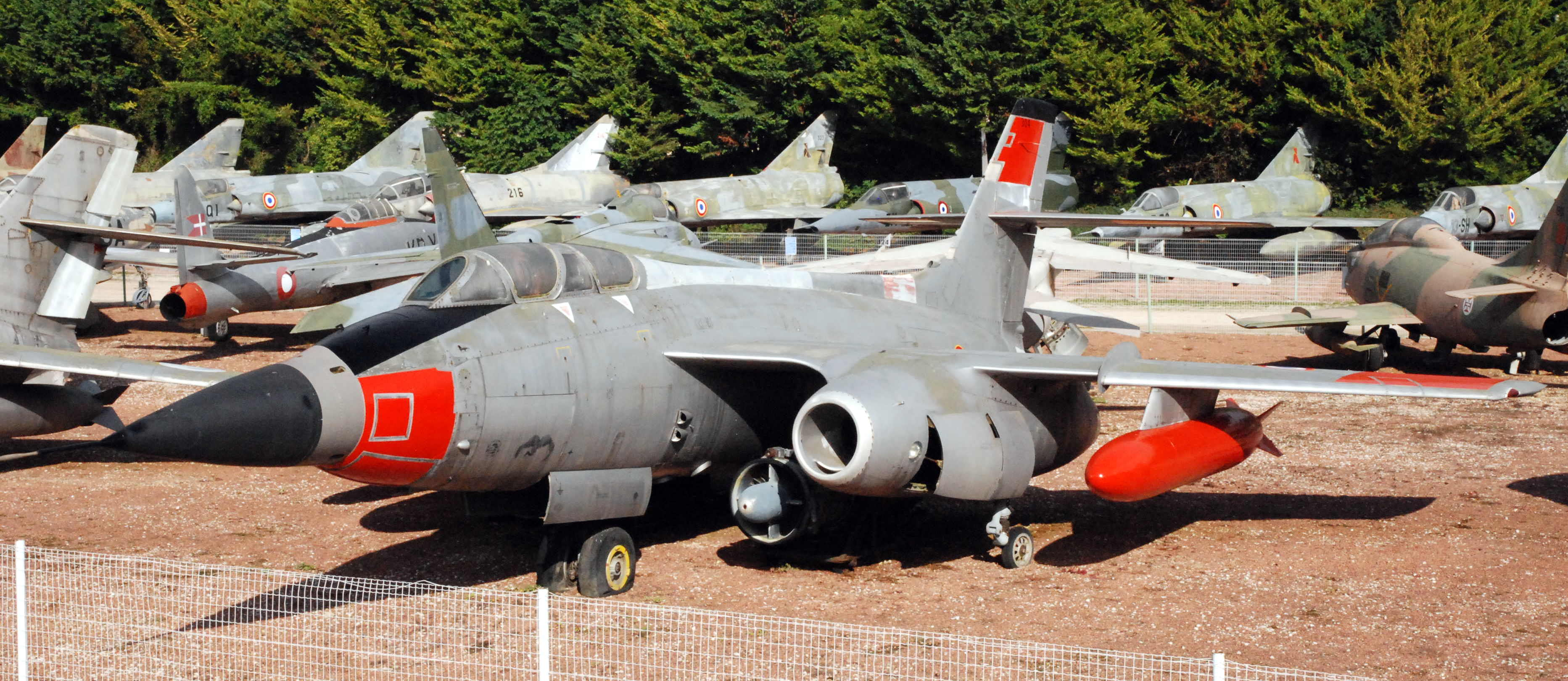 Photo ref; Nikon-D80-2014-DSC_1359 (Edited)